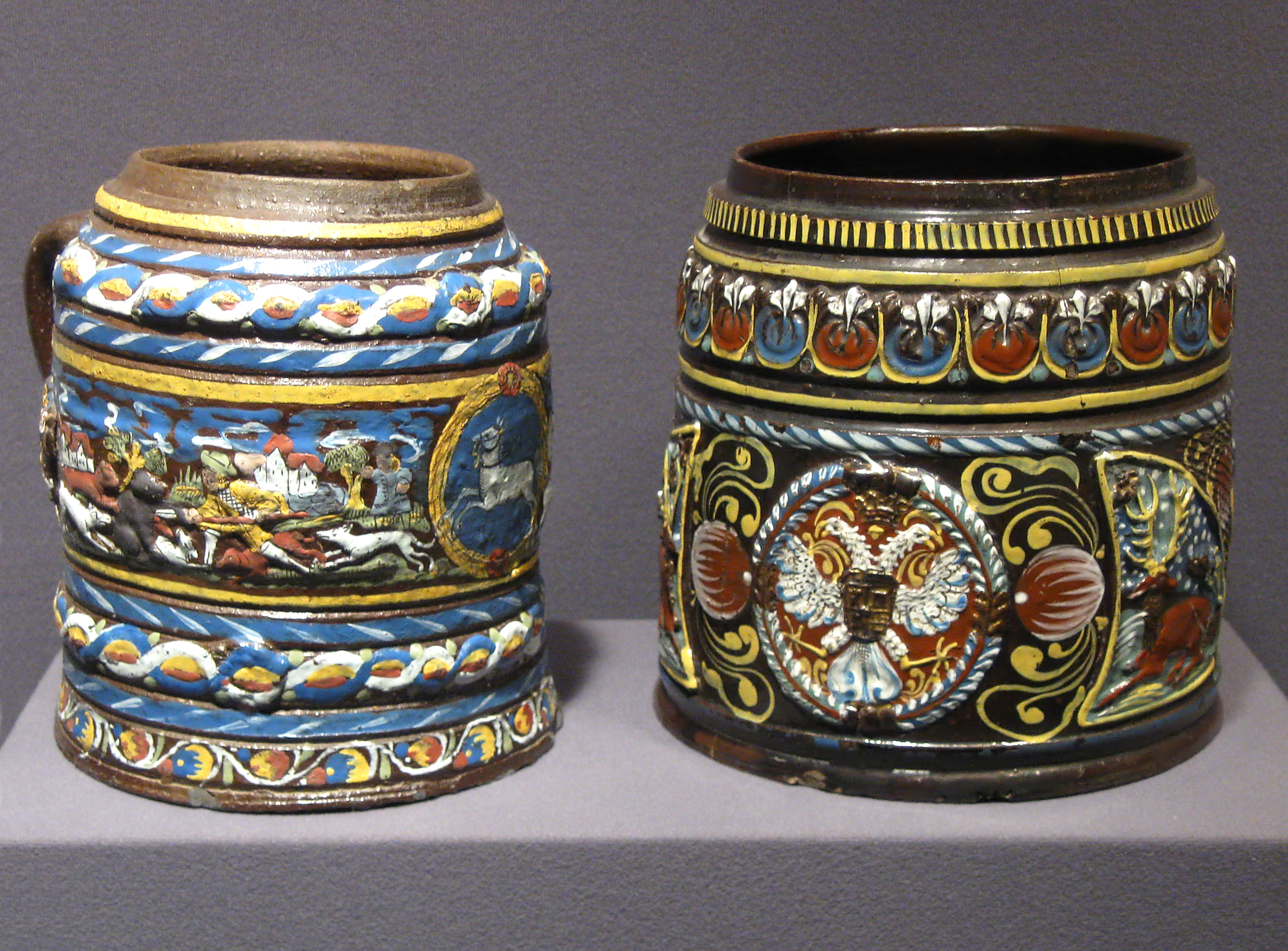 This is a set of 2 finely decorated 17th century Tankards from Creußen, Germany. They are a fine example of German and Austrian stoneware and appear to be in mint condition. This set is today located within the Koerner European Ceramic Gallery of UBC's Museum of Anthropology in Vancouver, Canada.